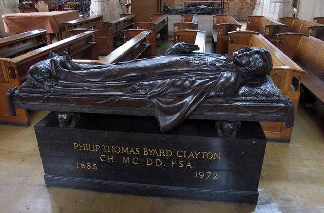 All Hallows by the Tower, Byward Street, London EC3 - Effigy, near to Bermondsey, Southwark, Great Britain. Effigy of Philip Clayton